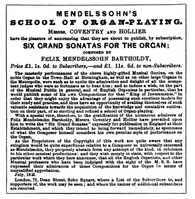 Contemporary advertisement (1845) for Mendelssohn's six organ sonatas, op. 65. From the journal 'Musical World', edition of 24 July 1845